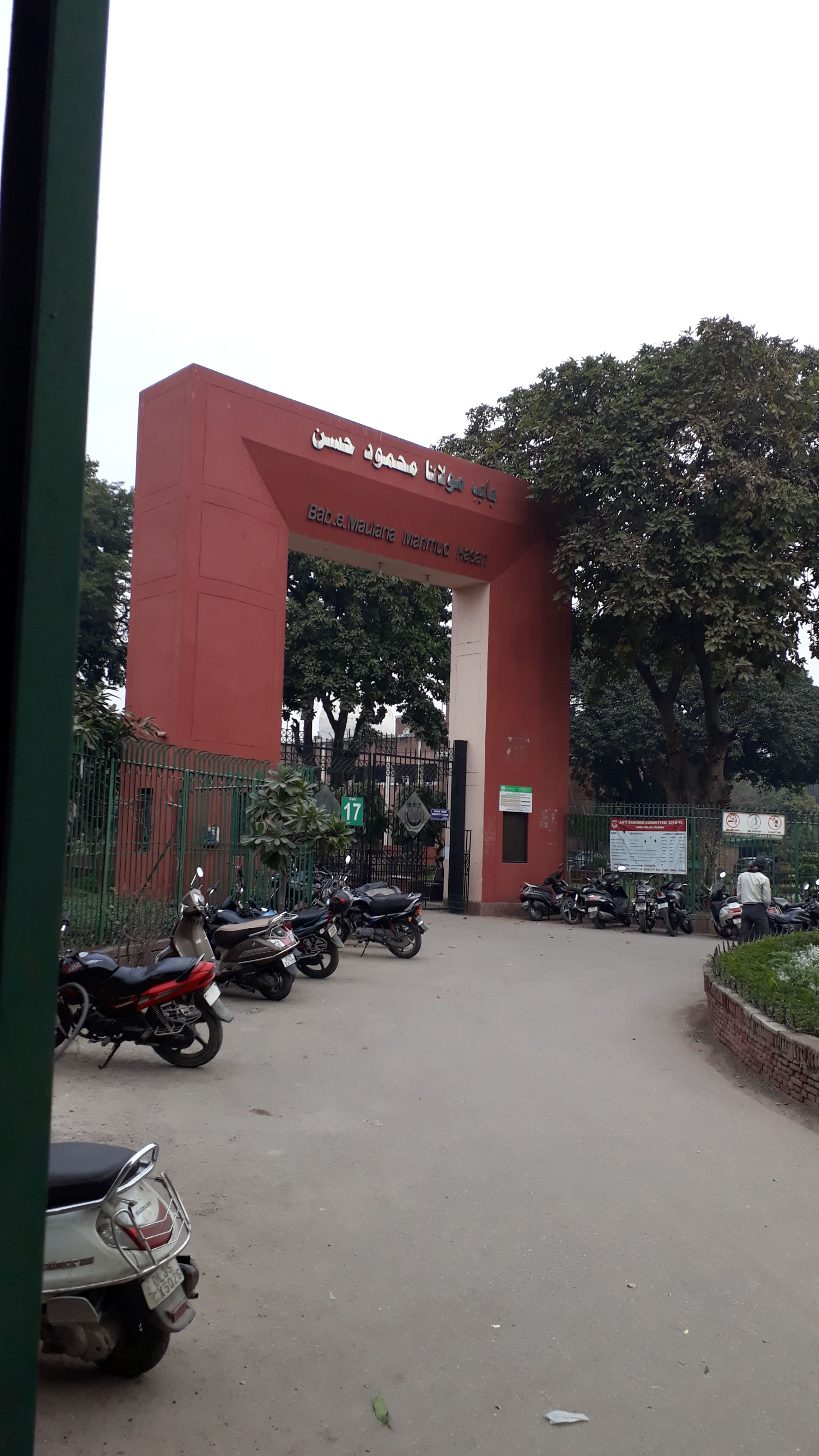 It is one of the gates of Jamia Millia Islamia